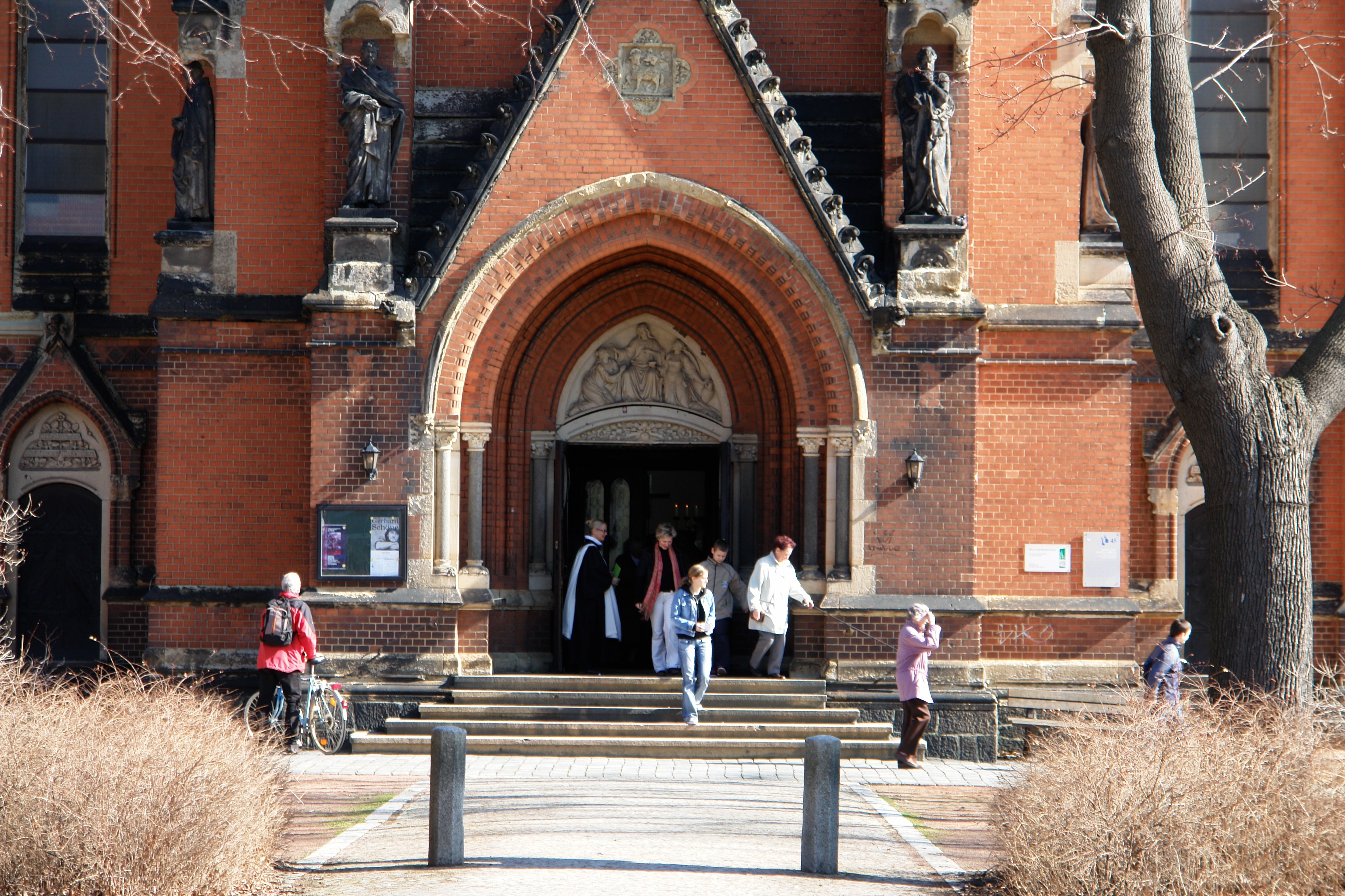 Maria- and Martha church in Bautzen in Saxony, Germany.